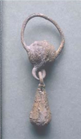 Burial 254 is of a child between 3 ½ and 5 ½ years old. A silver pendant was recovered during laboratory cleaning of the skeletal remains. It was found near the child’s mandible and may have been worn as an earring or strung around the neck. The original was reinterred with the other artifacts recovered at the site along with 419 ancestral remains in 2003